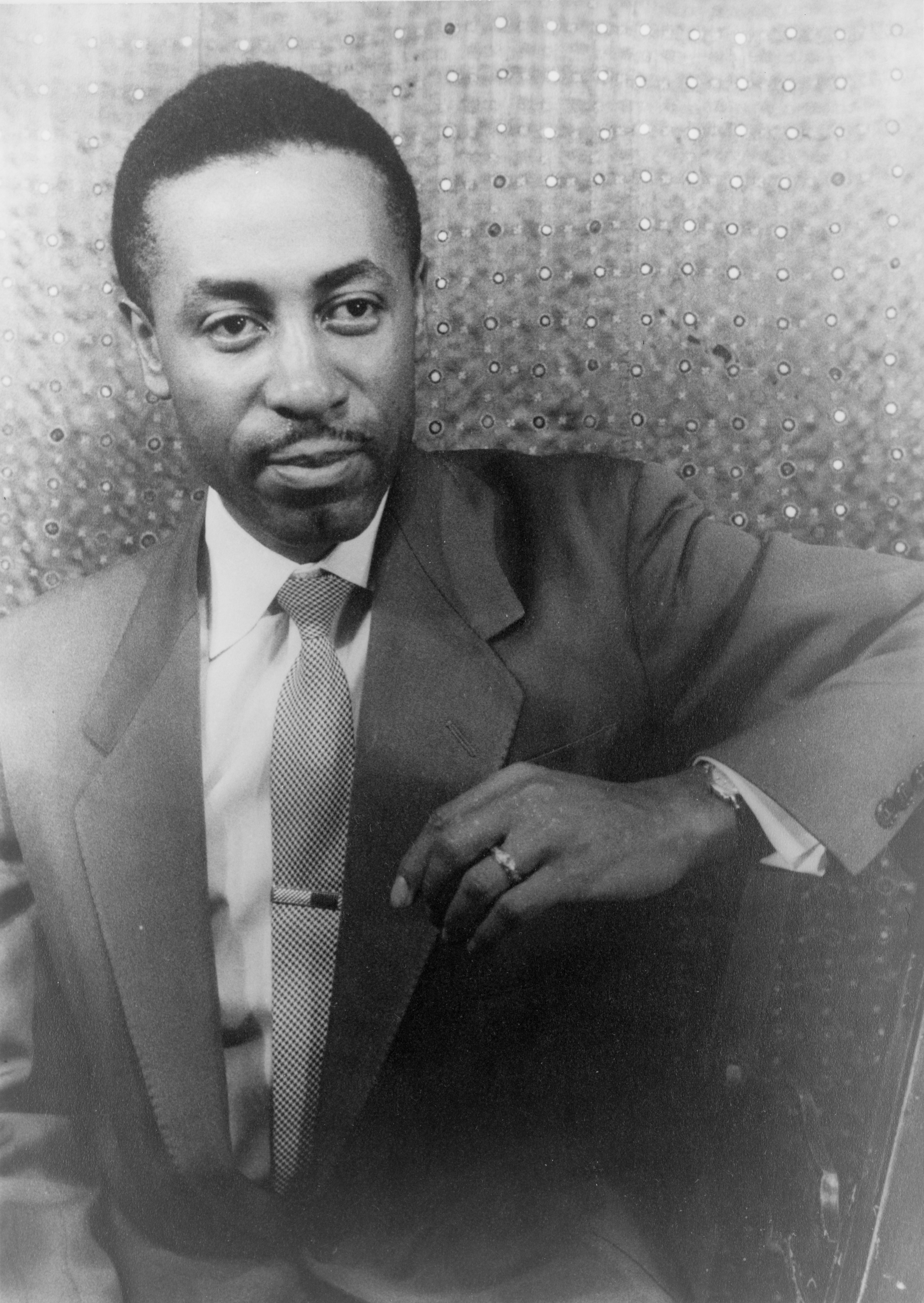 Title: Robert McFerrin, baritone, half-length portrait, facing front Abstract/medium: 1 photographic print : gelatin silver.